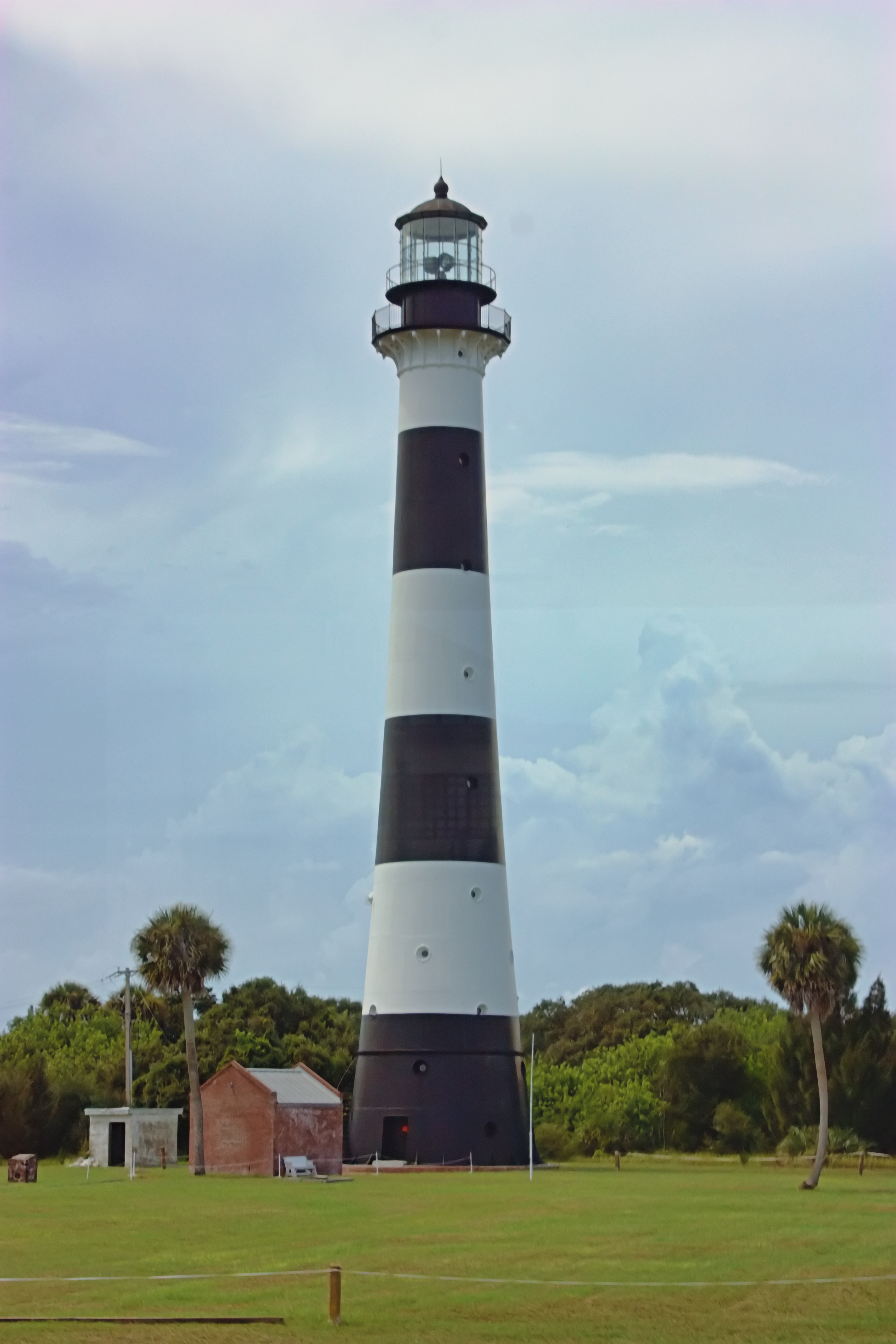 Cape Canaveral Lighthouse, following extensive renovation.